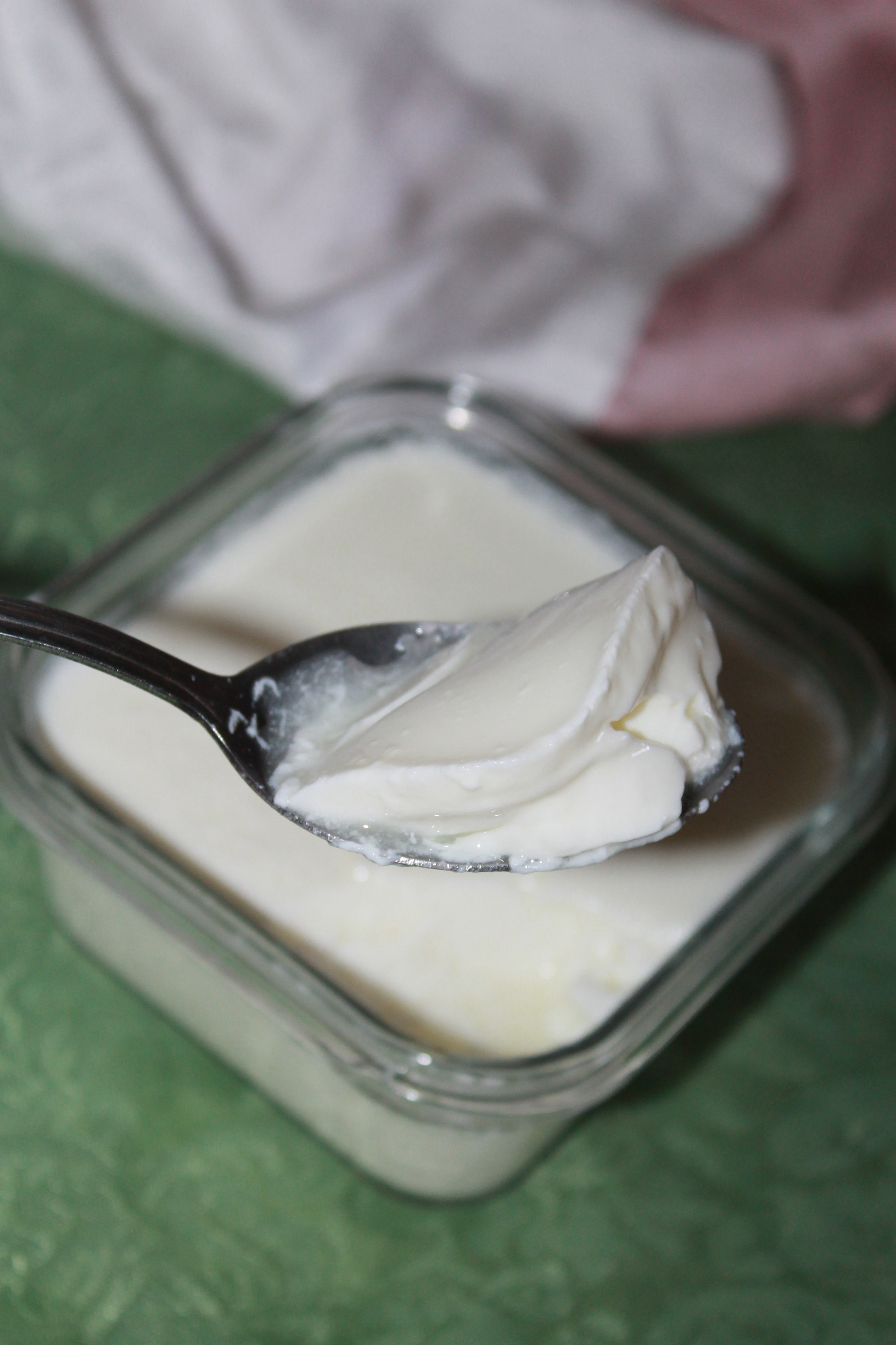 Homemade curd/yoghurt